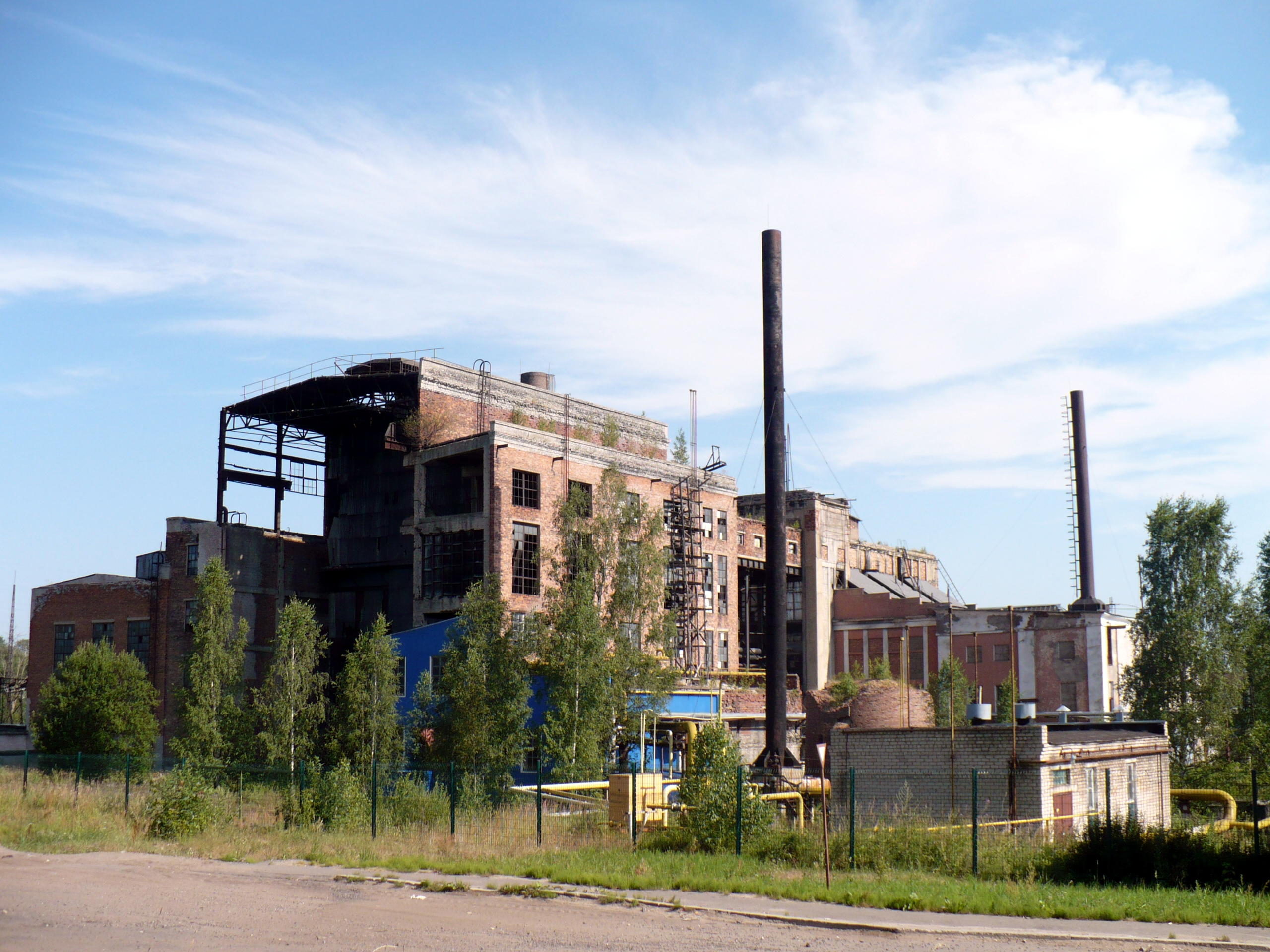 Paper factory in Okulovka, Novgorodskaya Oblast, Russia